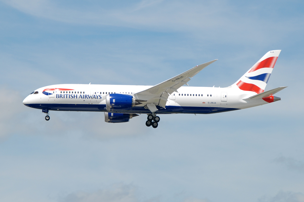 G-ZBJA Boeing 787-8 msn 38609/108 operated by British Airways and seen arriving at London Heathrow on its delivery flight from Paine Field.